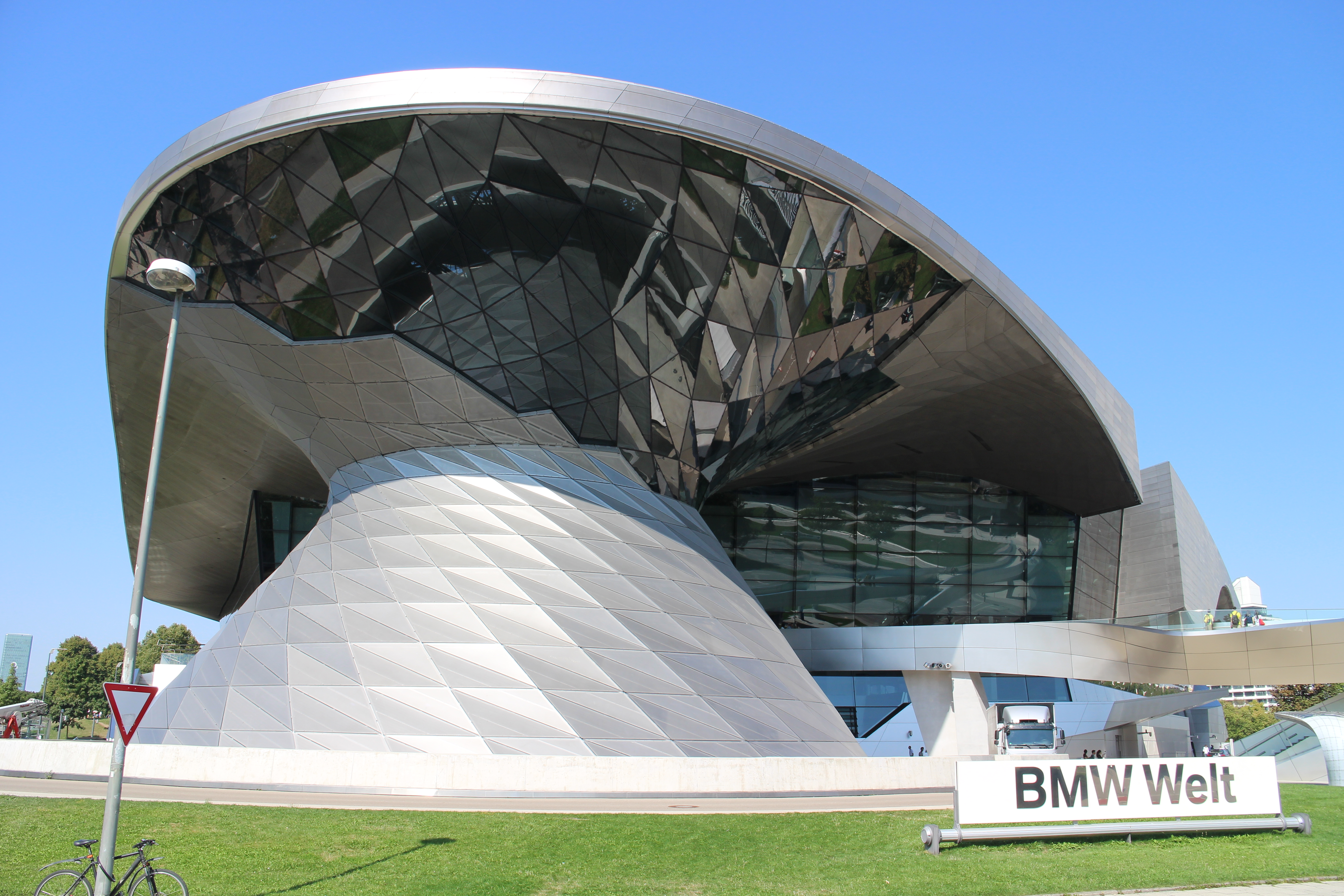 BMW Welt